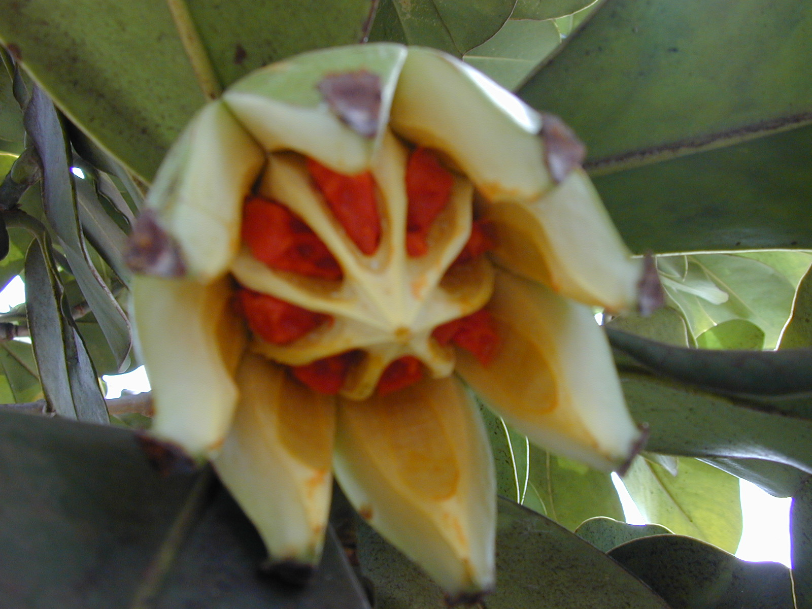 Clusia rosea (fruit). Location: Maui, Kahului syn: Clusia major